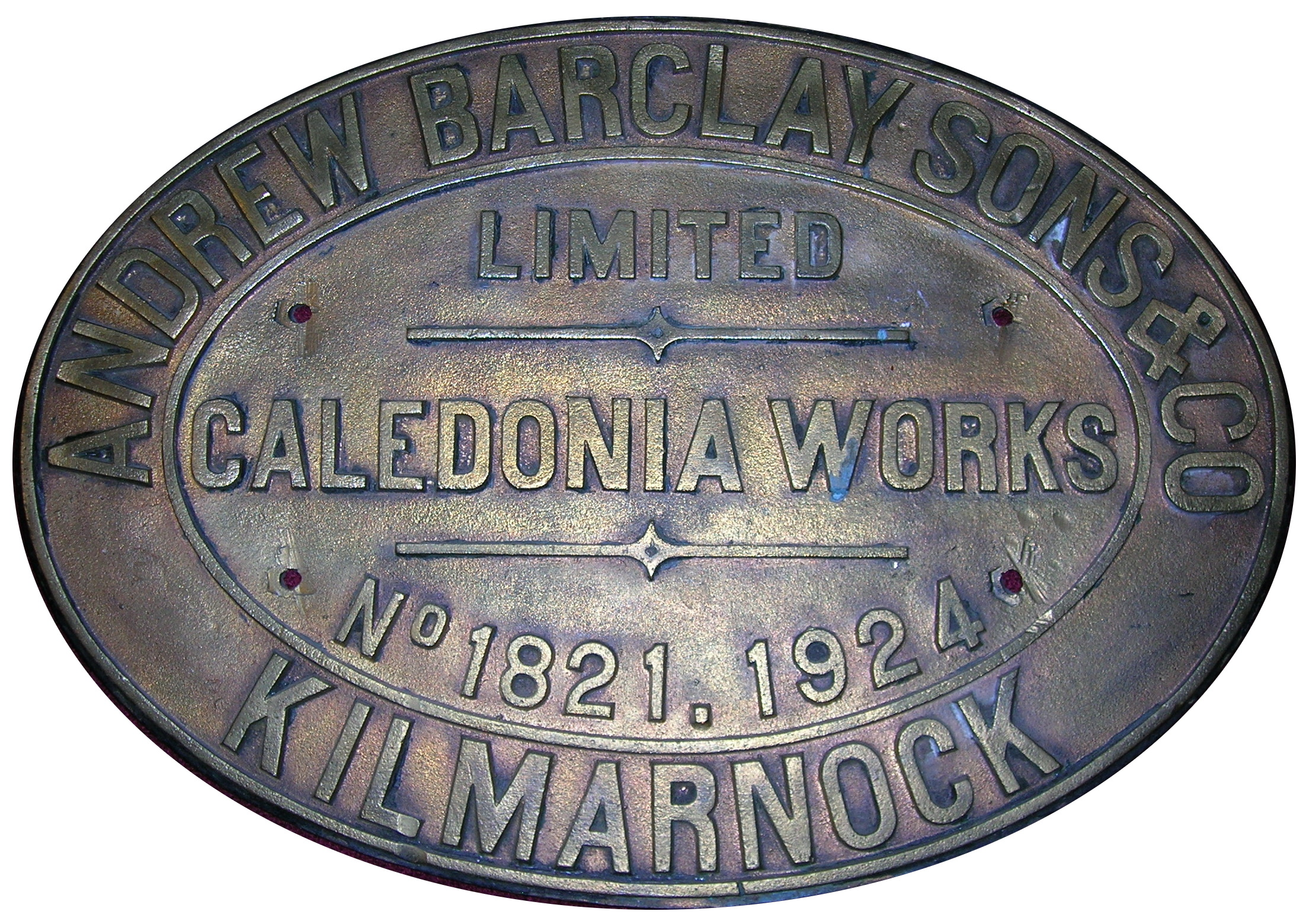 Locomotive plaque from an Andrew Barclay Sons & Co locomotive. Caledonia Works, Kilmarnock